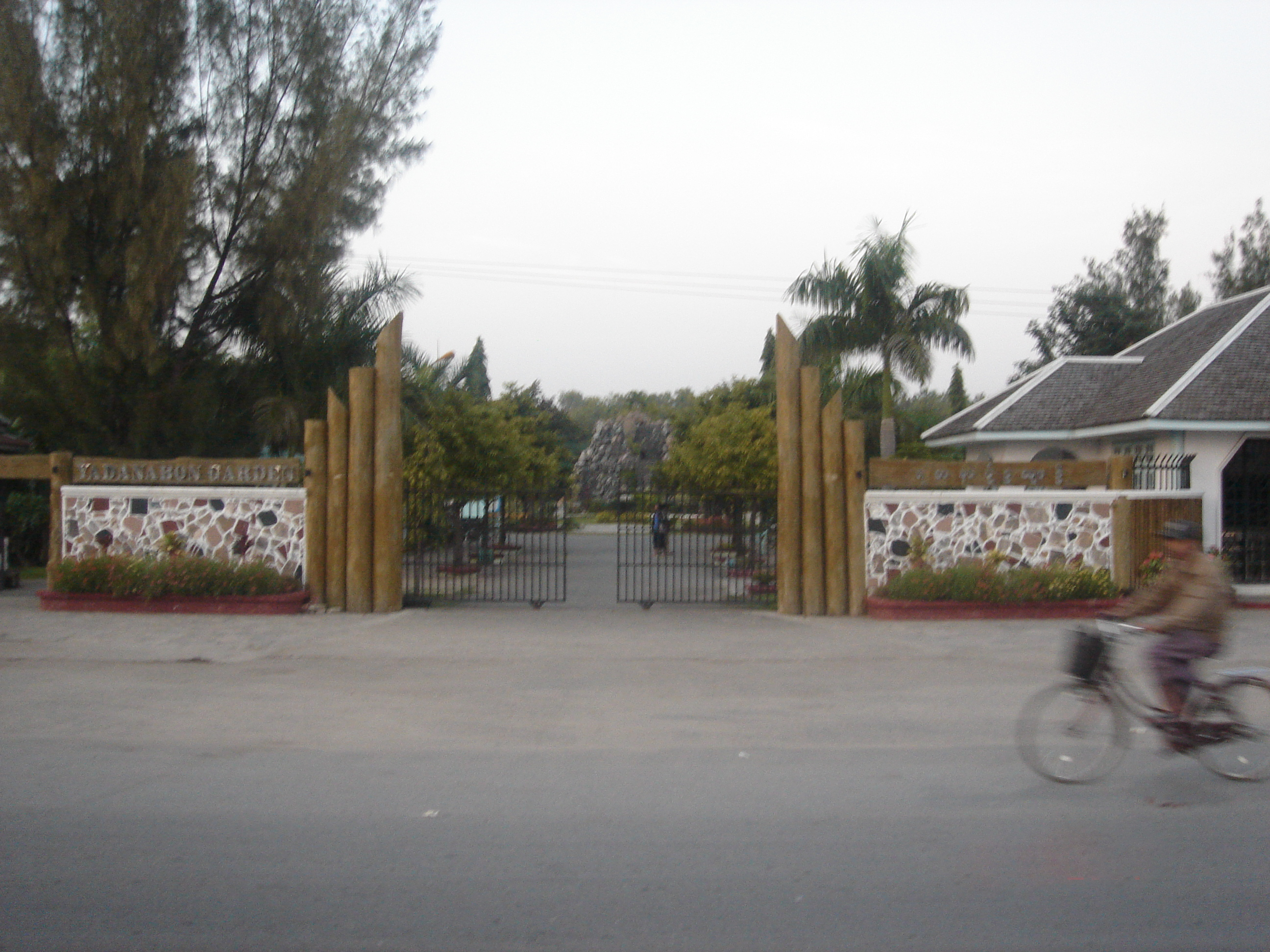 Yadanabon Zoological Garden Entrance